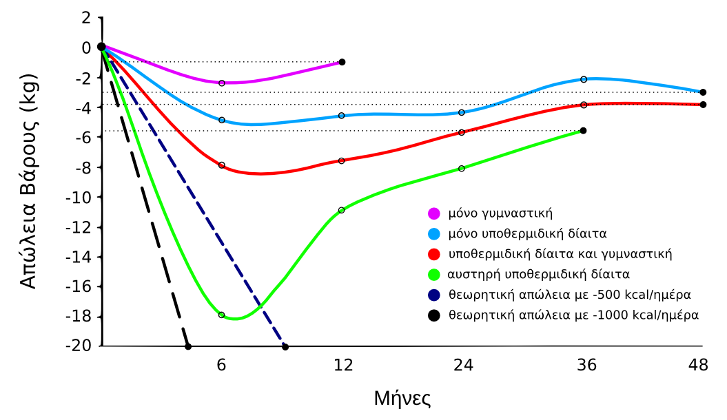 Based on: A. The average weight loss as shown in meta-analysis of 80 studies (randomized clinical trials), that: were published between 1st Jan. 1997 and 1st Sept. 2004 were followed up for at least a year had medical intervention for at least a year to keep the weight loss Lines that stop early indicate the trial wasn't continued after that time. Number of persons that took part: 26,455 Number of persons that completed their diet: 18,199 [69%] [1] B. Theoretical loss based on the assumption that reduction of 500 kcal/day leads to 1/2 kg weight loss per week. Theoretical loss based on the assumption that reduction of 1000 kcal/day leads to 1kg weight loss per week.[2]